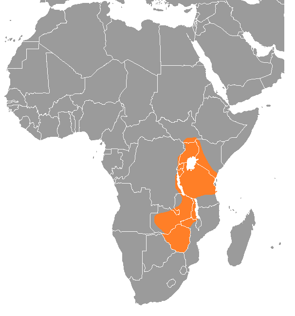 Thryonomys gregorianus range map